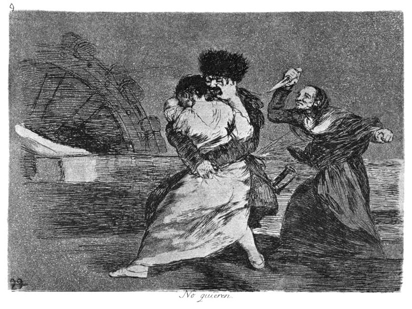 Los Desastres de la Guerra is a set of 80 aquatint prints created by Francisco Goya in the 1810s. Plate 9: No quieren. (They do not want to. )